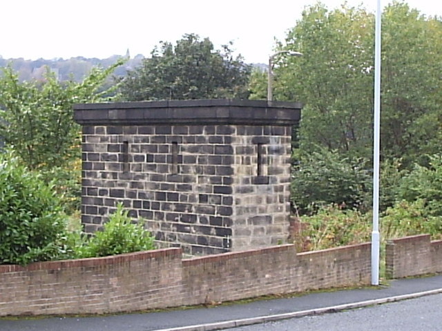 Ventilator shaft I believe this is the south west terminal ventilator shaft to the Esholt sewage tunnel running under north east Bradford. The centre co-ordinates of the tunnel portal at Esholt Sewage works and this shaft form a straight line that misses the co-ordinates of the shaft in SE1636 and the shaft in SE1737 by less than one metre. Its location is right next to the (now filled in) canal just off Canal Road.